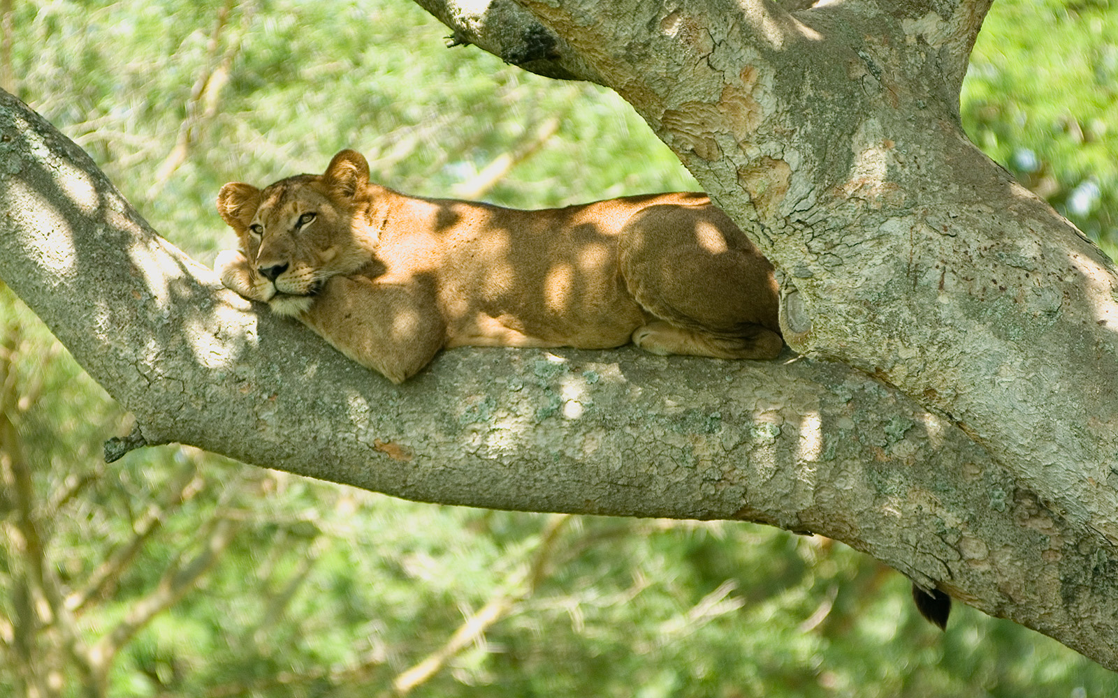 A lioness in Ishasha Southern sector of Queen Elizabeth National Park (Southwestern Uganda). Ishasha lions are famed for tree climbing, a trait only shared with other lions in the Lake Manyara region. They often spend the hottest parts of the day in the large fig trees found throughout the area. It is still unclear why so few lions exhibit this behavior.